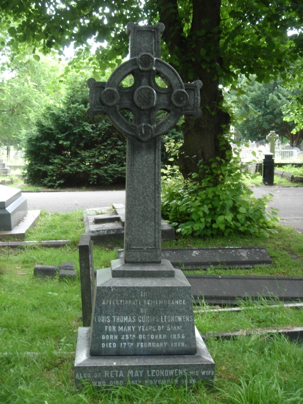 Grave of Louis T. Leonowens, Brompton Cemetery.